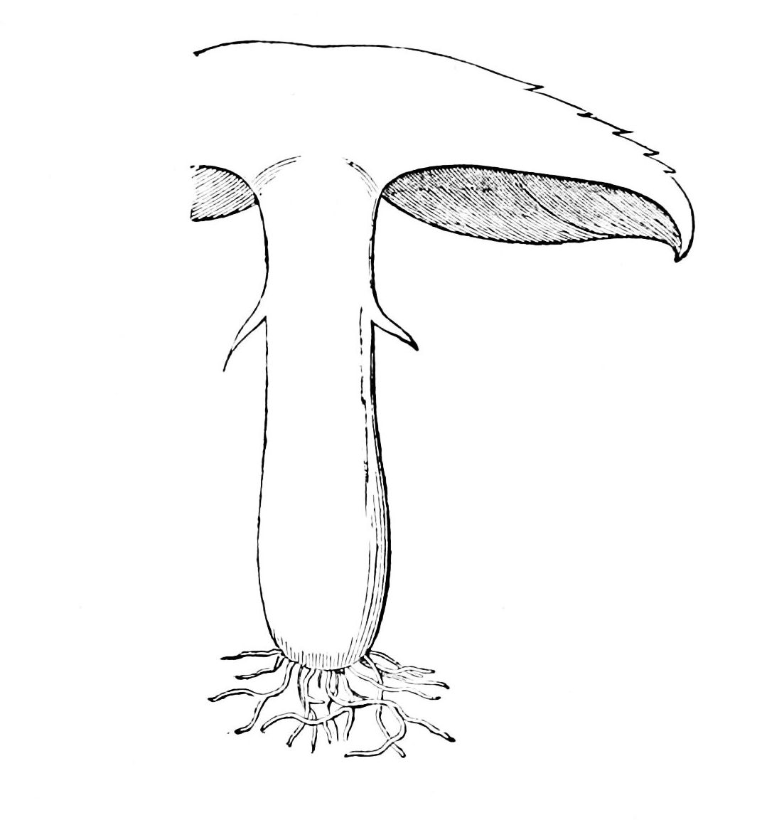 Section of a common mushroom